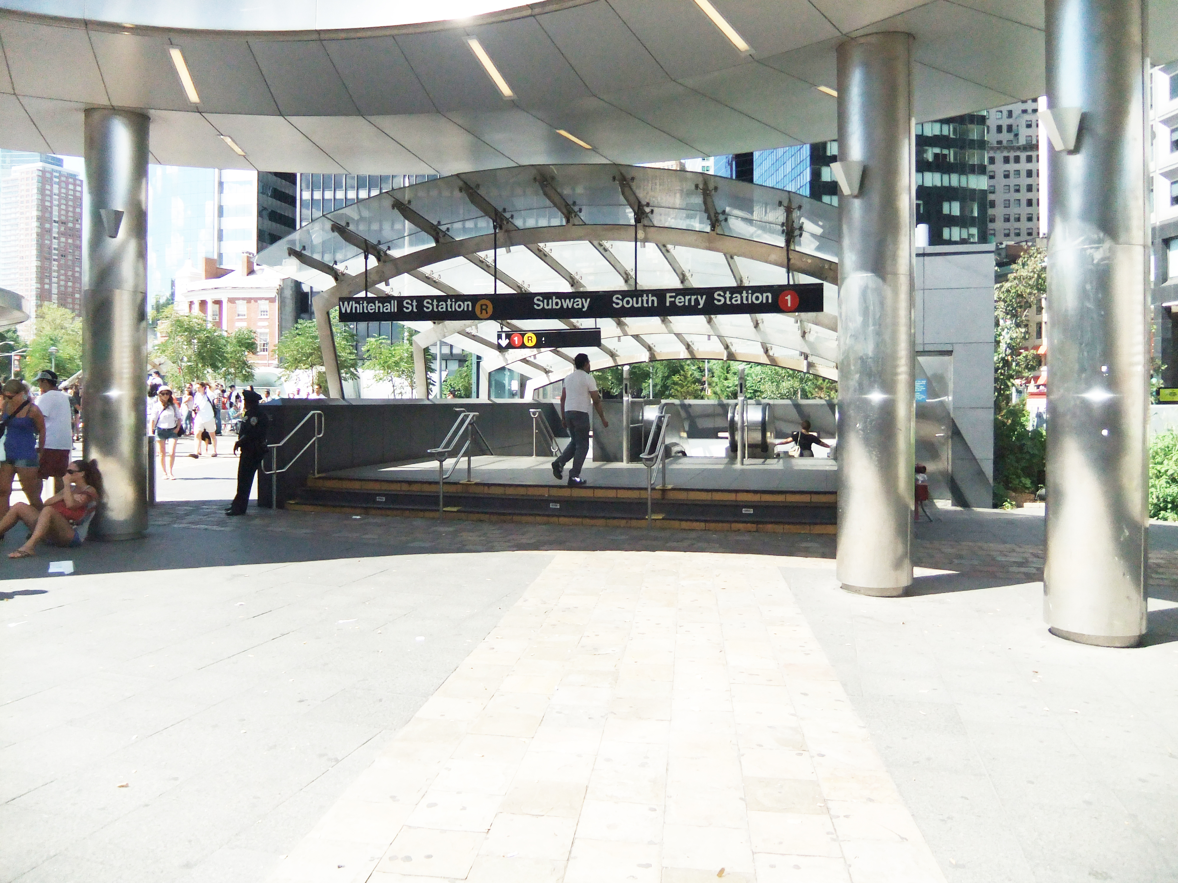 Stair and canopy in front of the Staten Island Ferry terminal to the Whitehall Street - South Ferry (1)(R) complex.